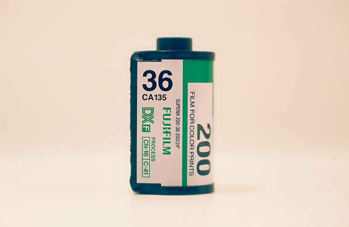 Fujifilm superia 200.